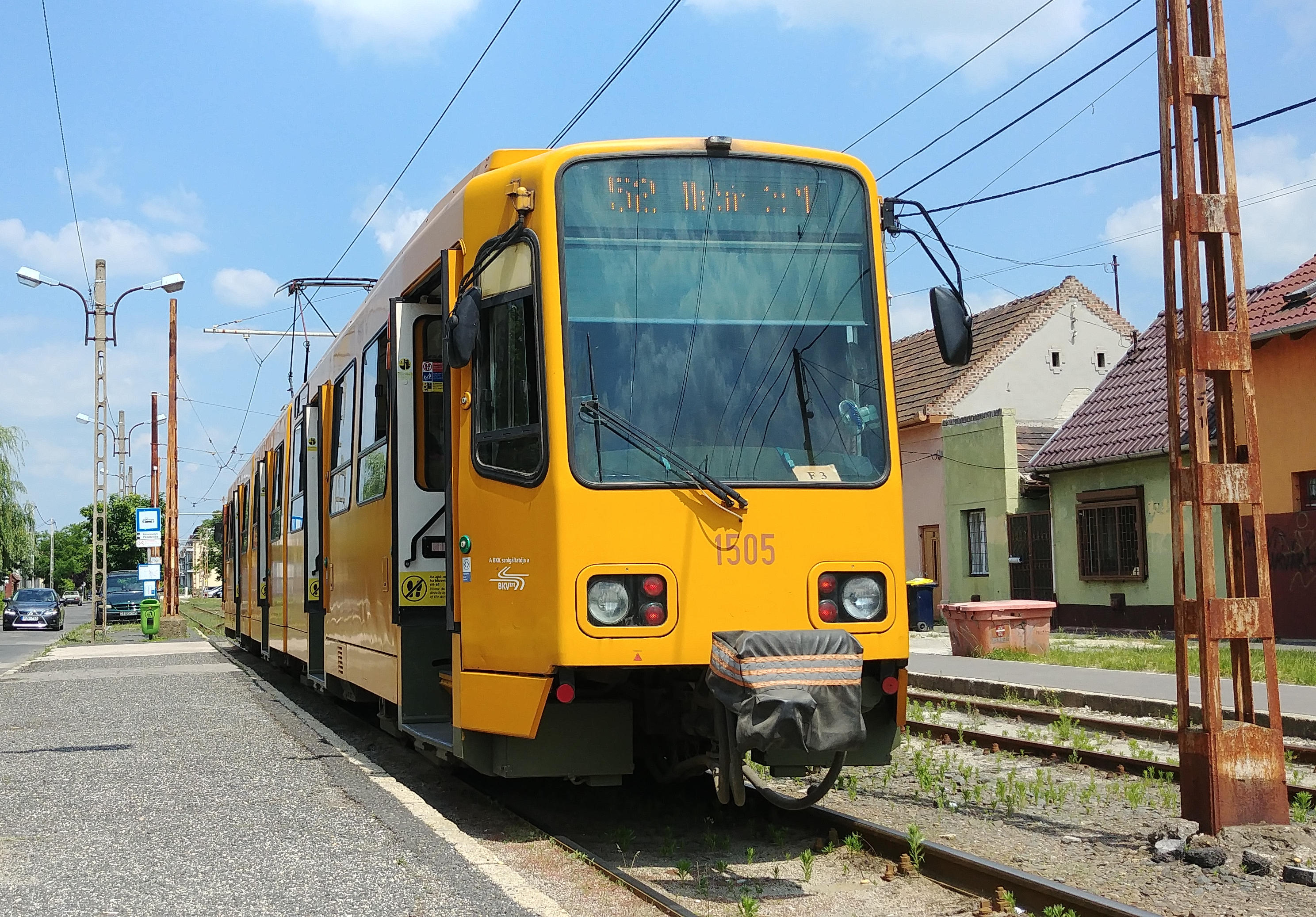 An ex-Hanover TW 6000, vehicle number 1505, stands as line 52 to Határ út at the line’s other end in Pesterzsébet, Pacsirtatelep.